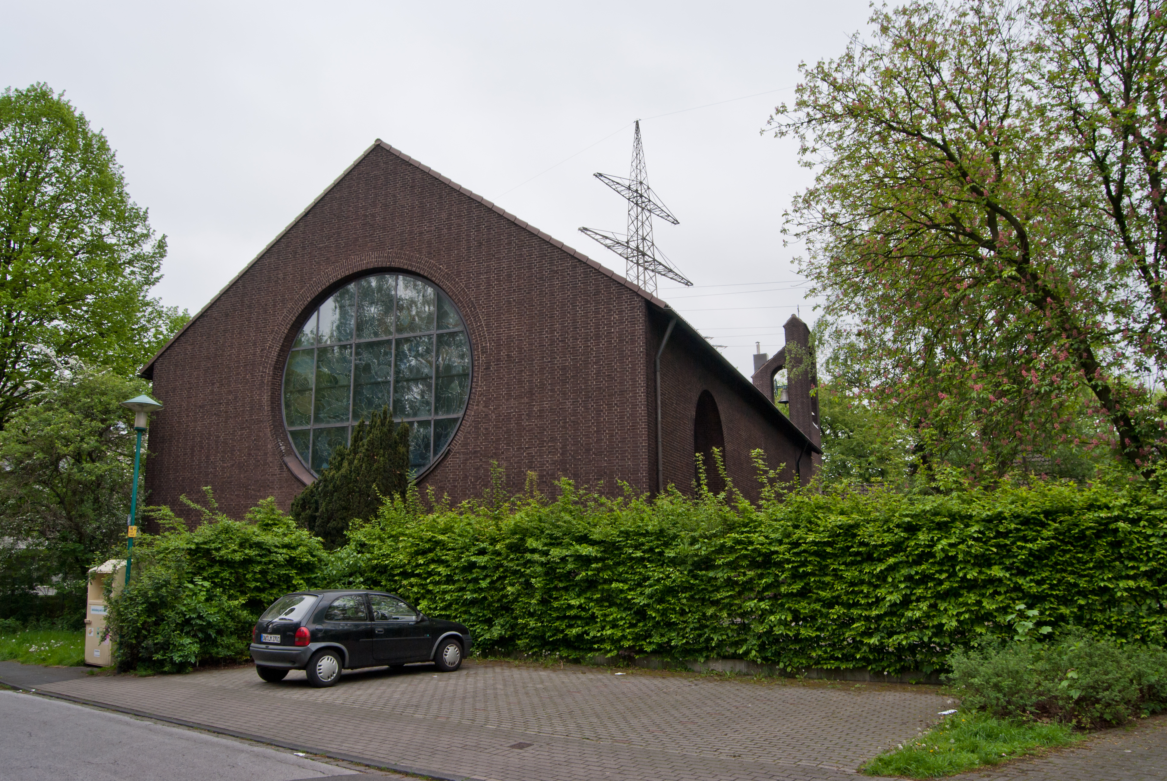 Duisburg (North Rhine-Westphalia, Germany) – district Walsum – Catholic Saint Conrad Church This image shows a heritage building in Germany, located in the North Rhine-Westphalian city Duisburg (no. 580). This photograph was taken with a Nikon D3000.